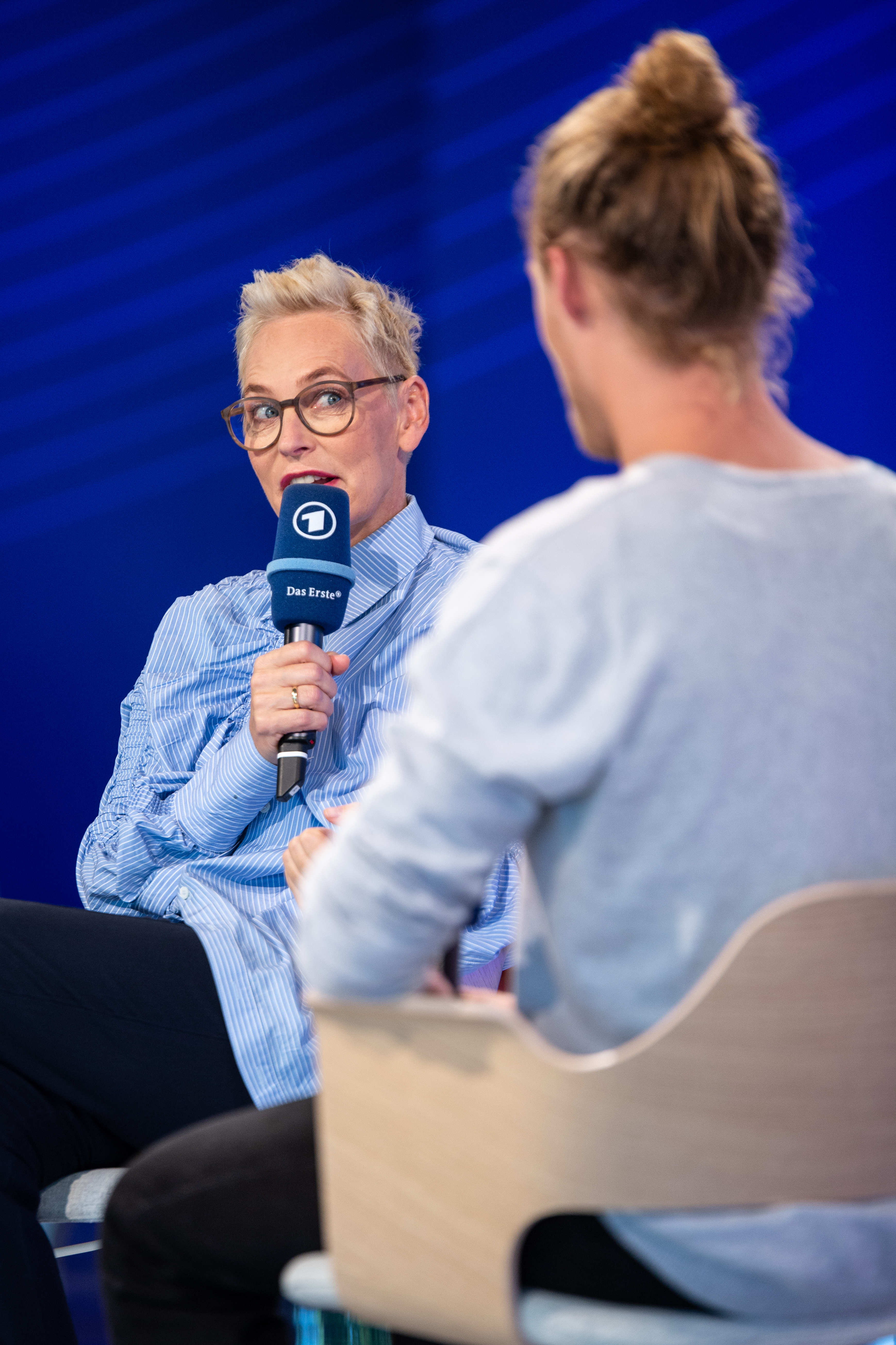 Bärbel Schäfer and Christopher Schacht at the Frankfurt Book Fair 2018